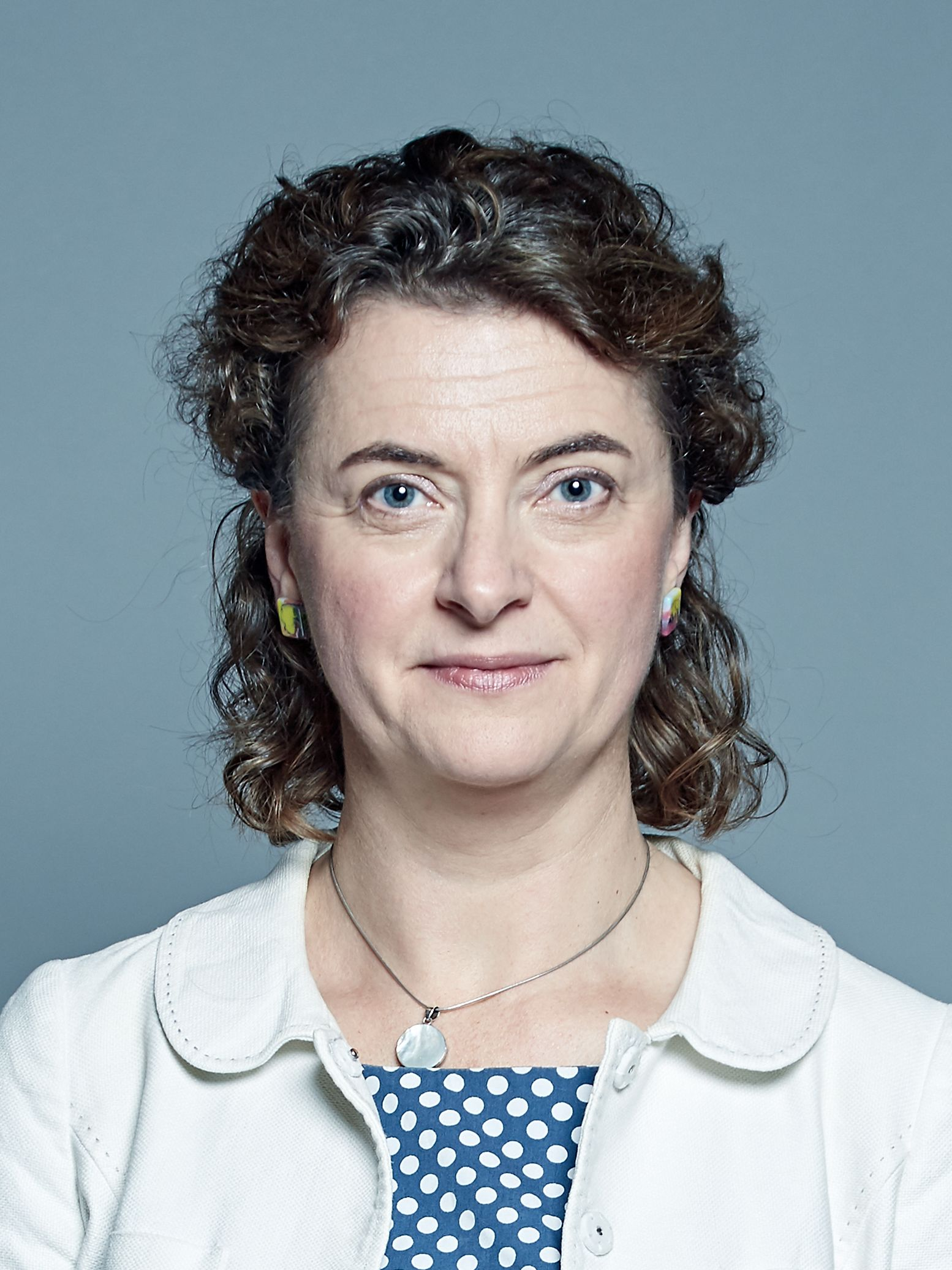 Official portrait of Baroness Berridge